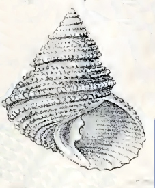 Turcica monilifera A. Adams, 1854; family Chilodontidae